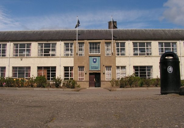 Old School